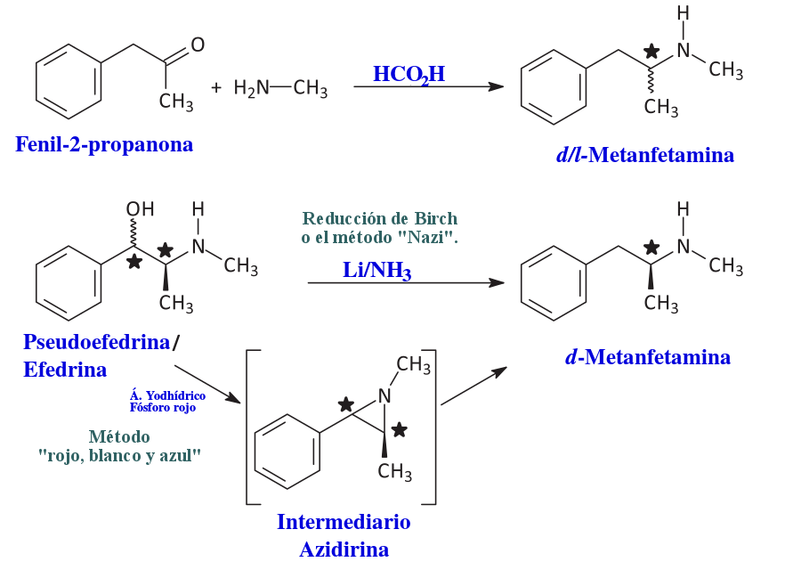 Illicit metamphetamine synthesis. "Red, white, blue", and Birch reduction method